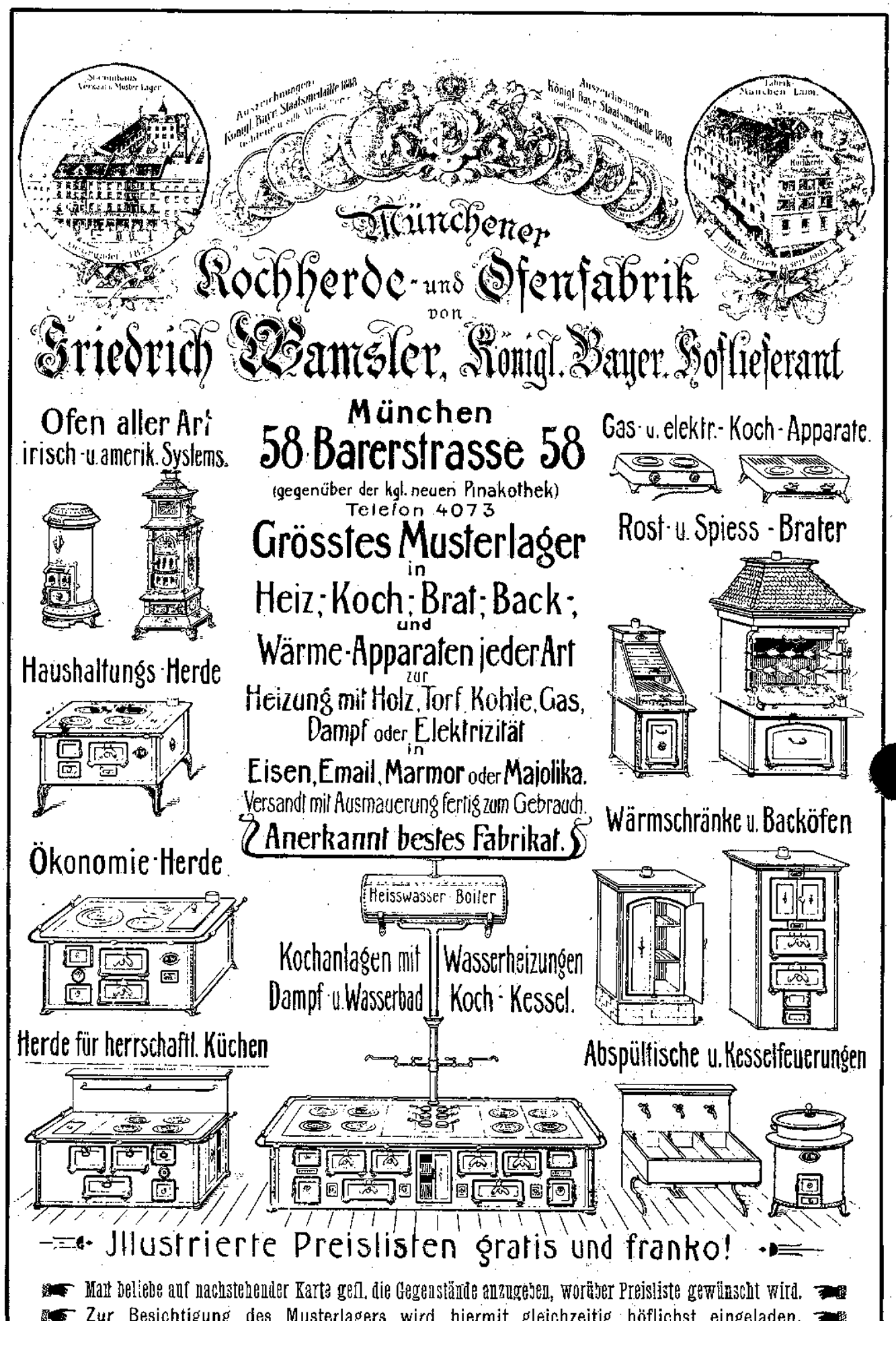 Historical pricelist of Wamsler, showing the sign of the purveyor to the bavarian court